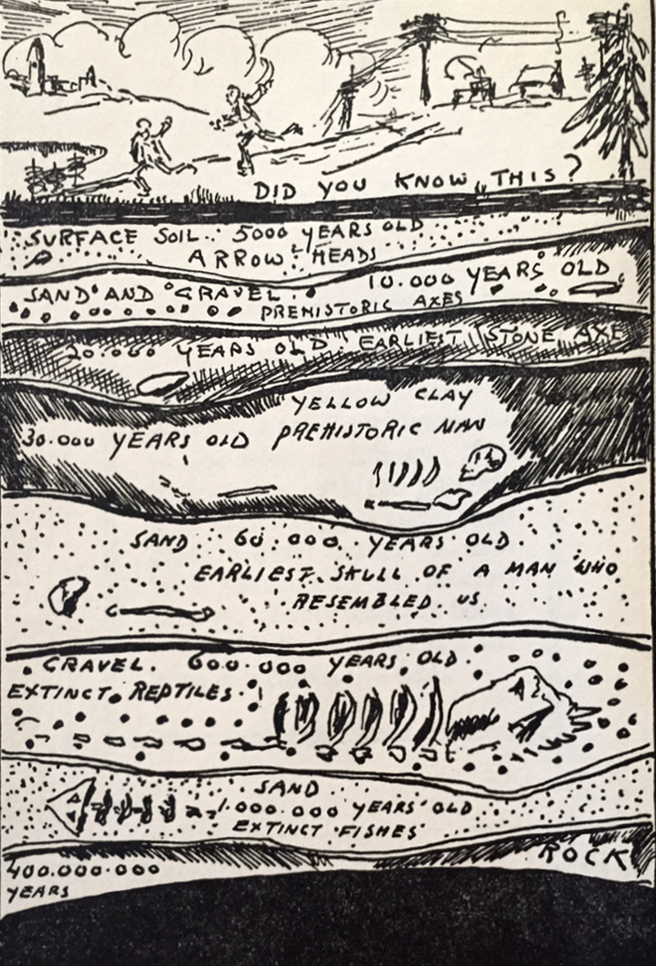 Frontispiece to Hendrik Willem Van Loon's 1922 book Ancient Man.